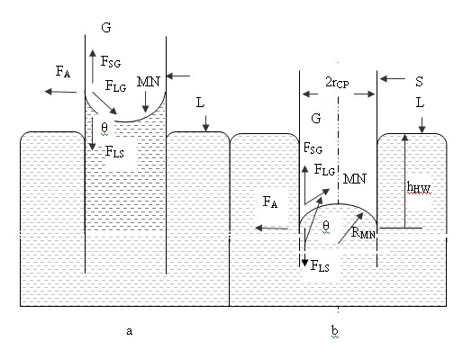 Molecular power 12. Behavior of liquid in homogeneous capillaries with wetted and non-wetted surfaces. Depicts Behavior of liquid in homogeneous capillaries with wetted and non-wetted surfaces